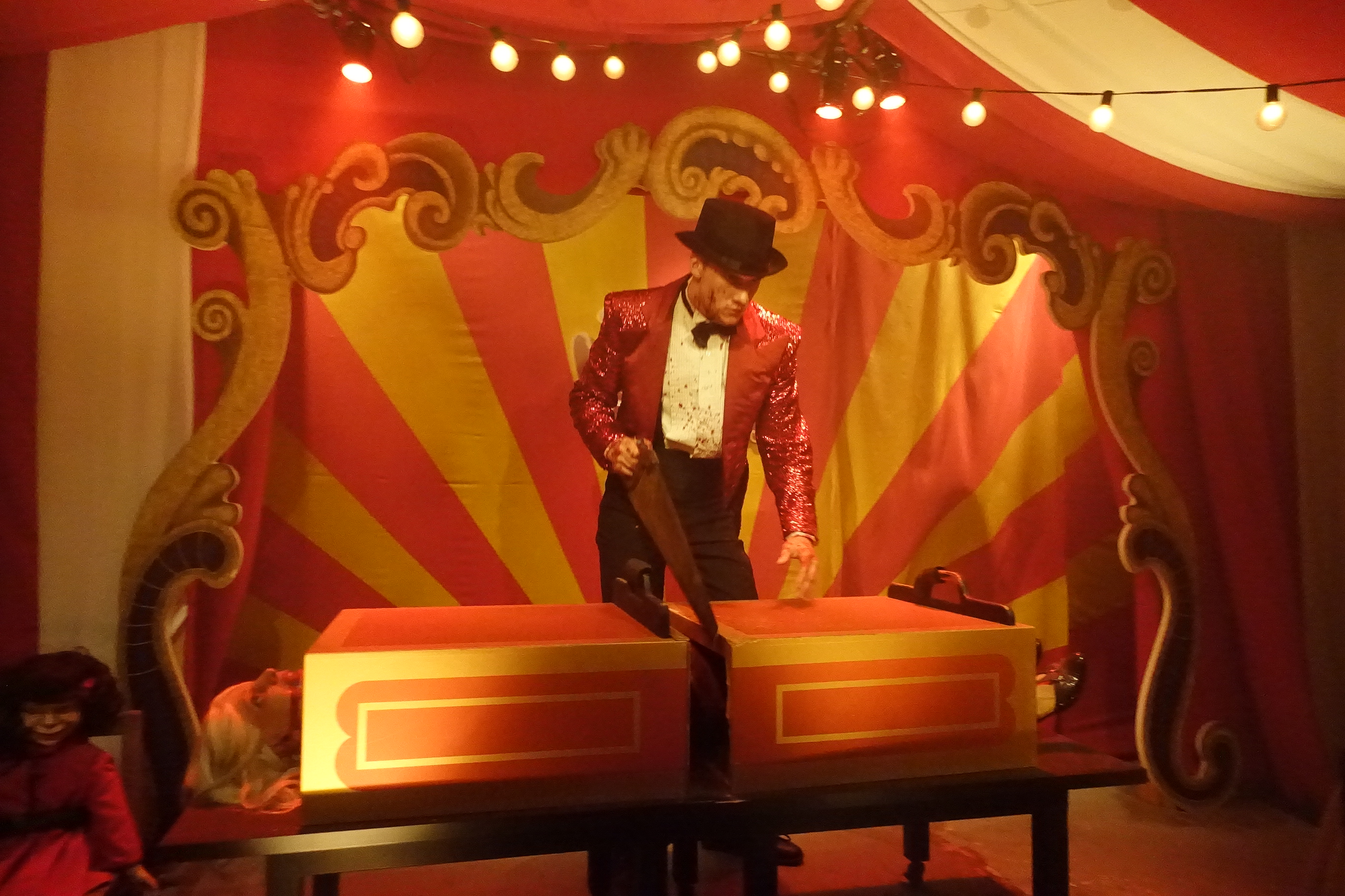 Halloween Horror Nights event dedicated to American Horror Story, Universal Studios Hollywood